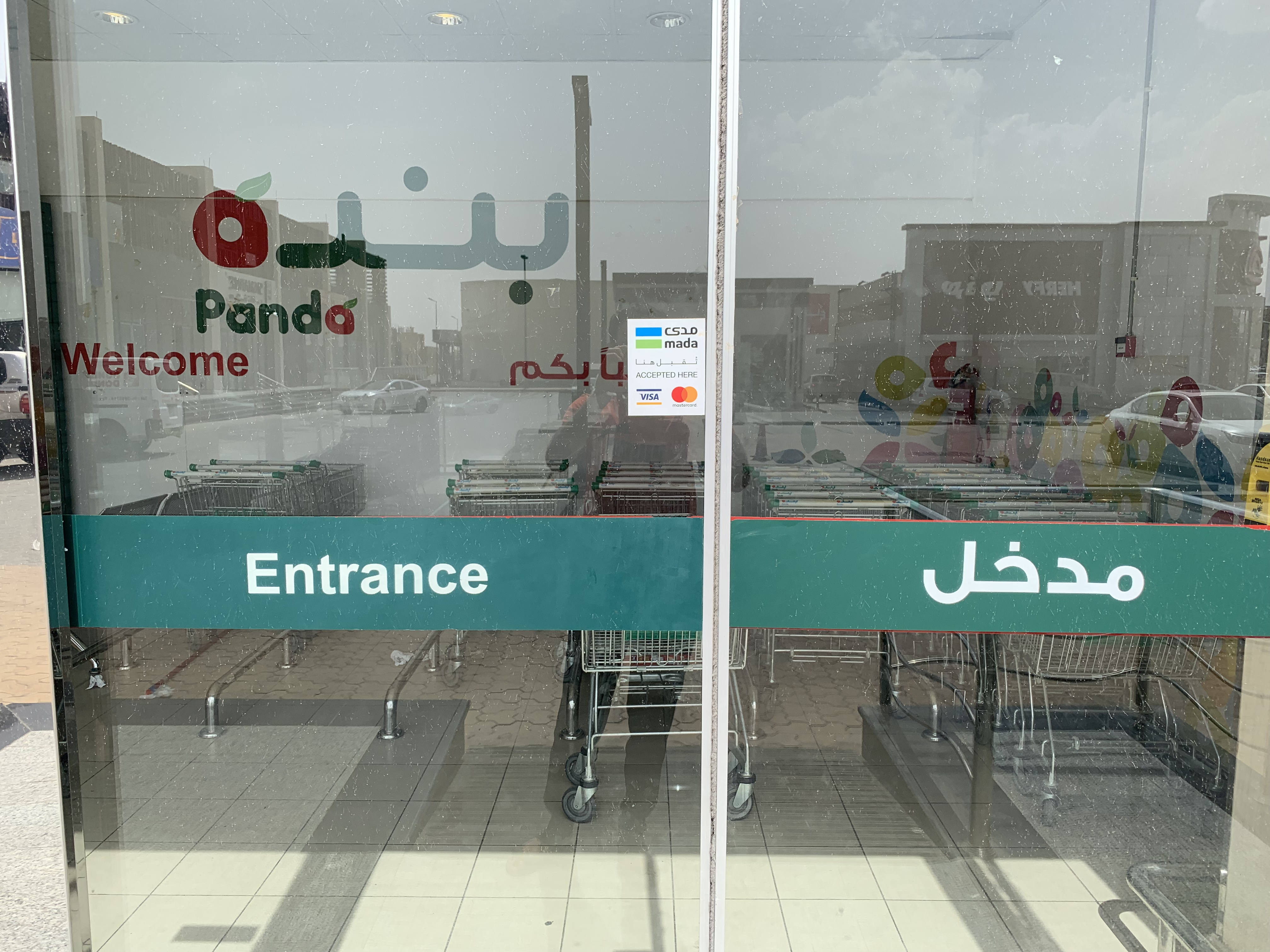 Mada sticker in one of the shops in Unaizah, one of the governorates of Saudi Arabia.